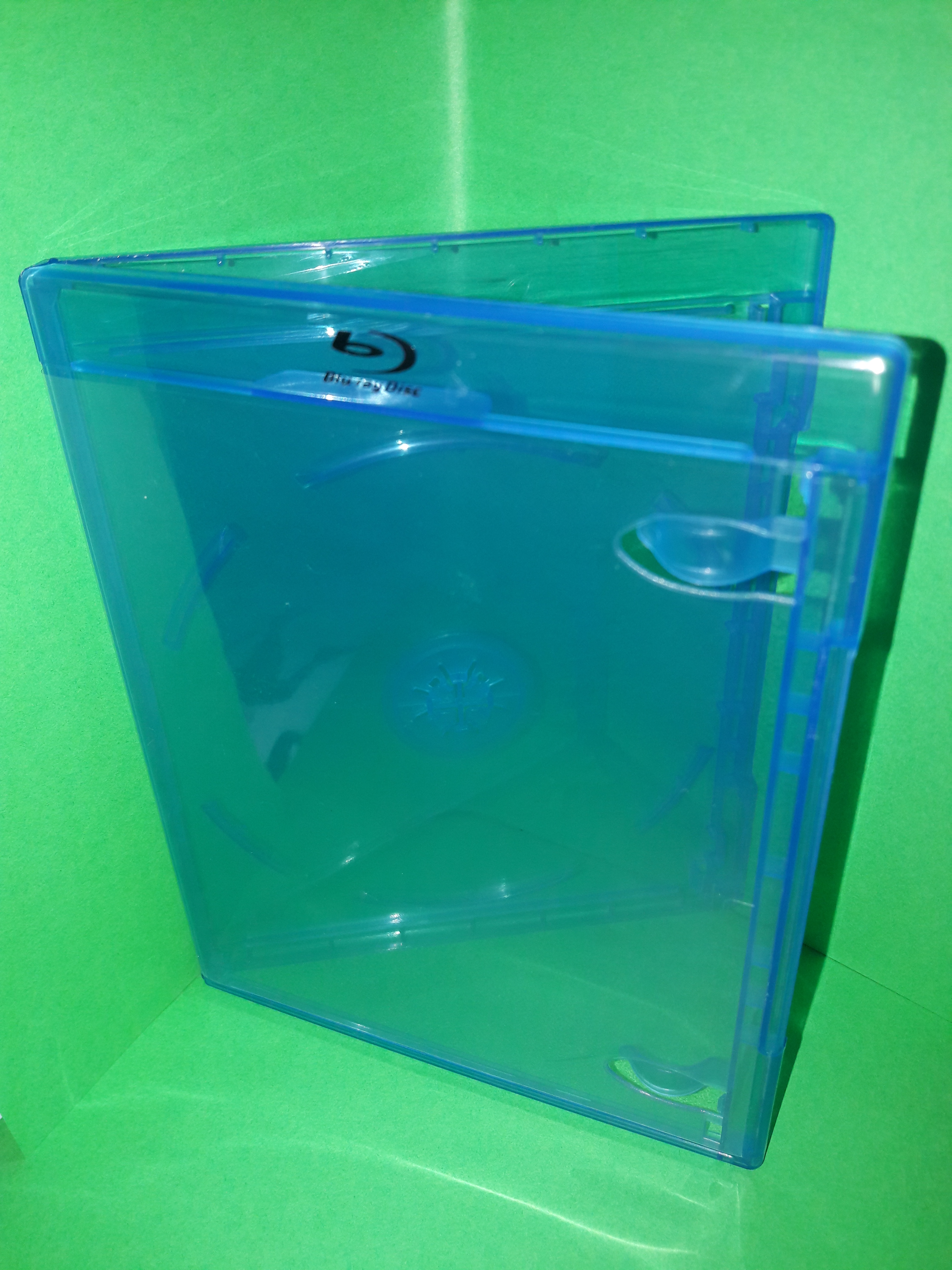 Keep case of a bluray which is often in blue colour.